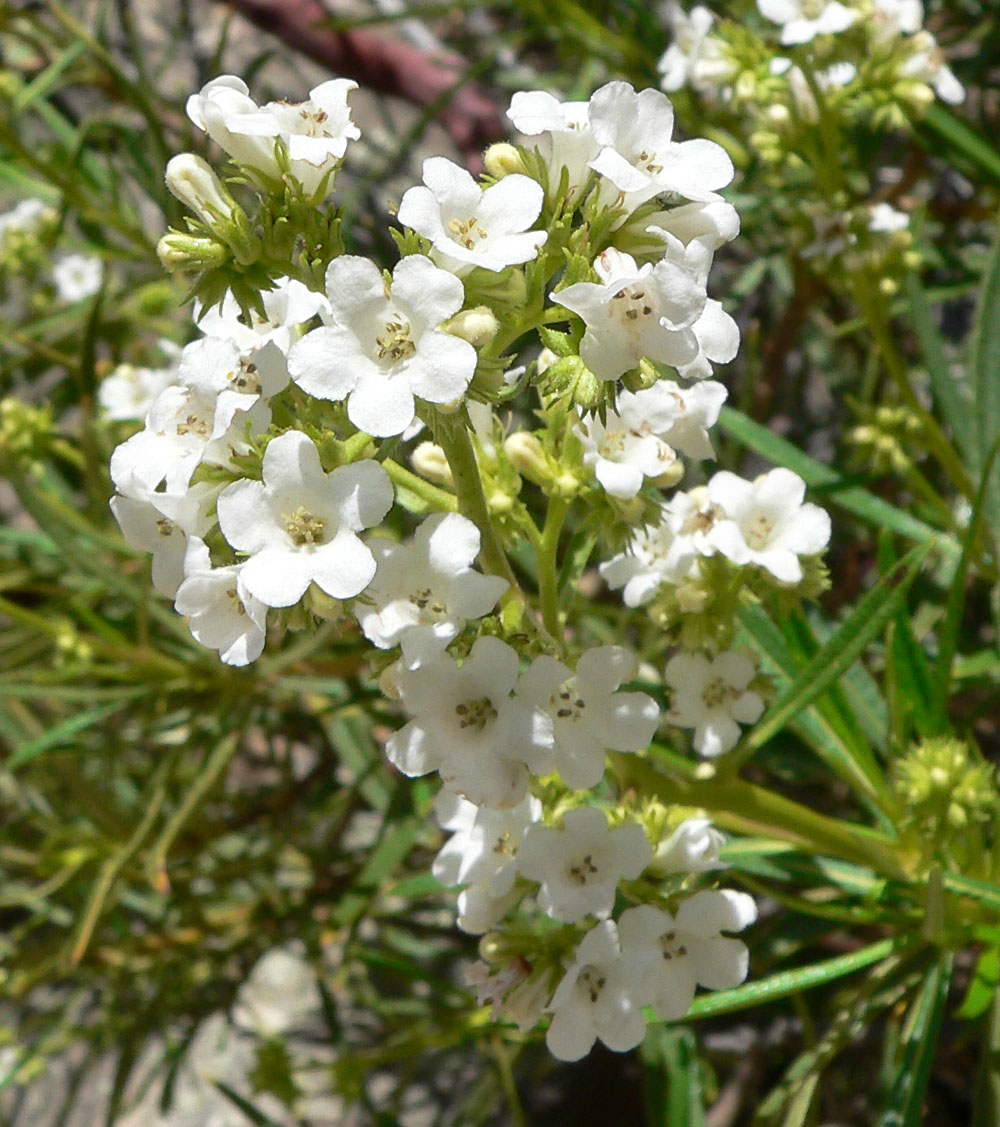 Eriodictyon angustifolium in Icebox Canyon, Red Rock Canyon, Spring Mountains, southern Nevada